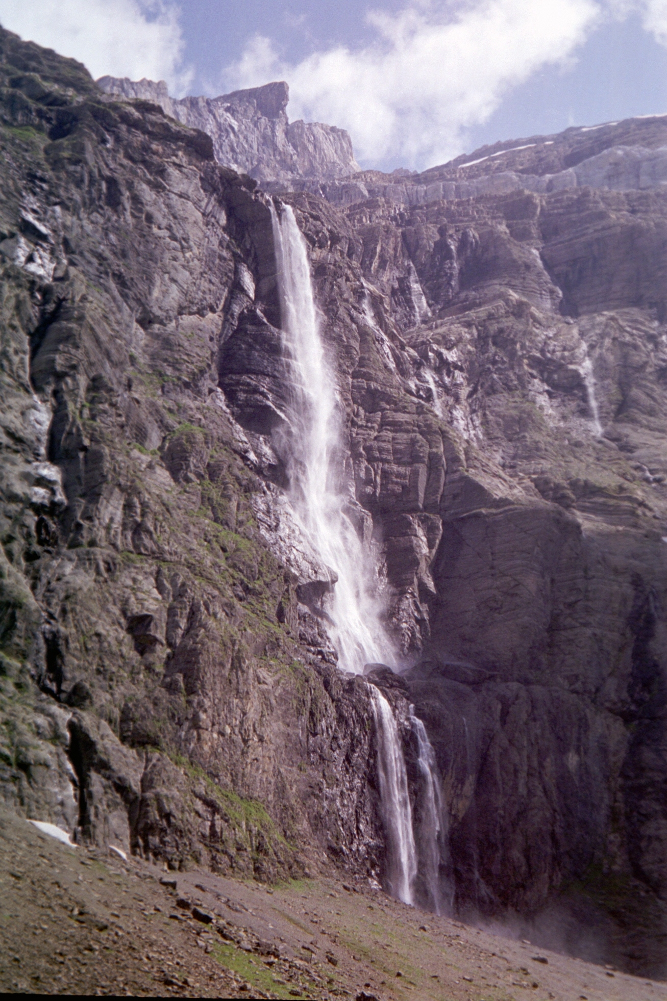 Gavarnie great falls, Hautes-Pyrénées, France